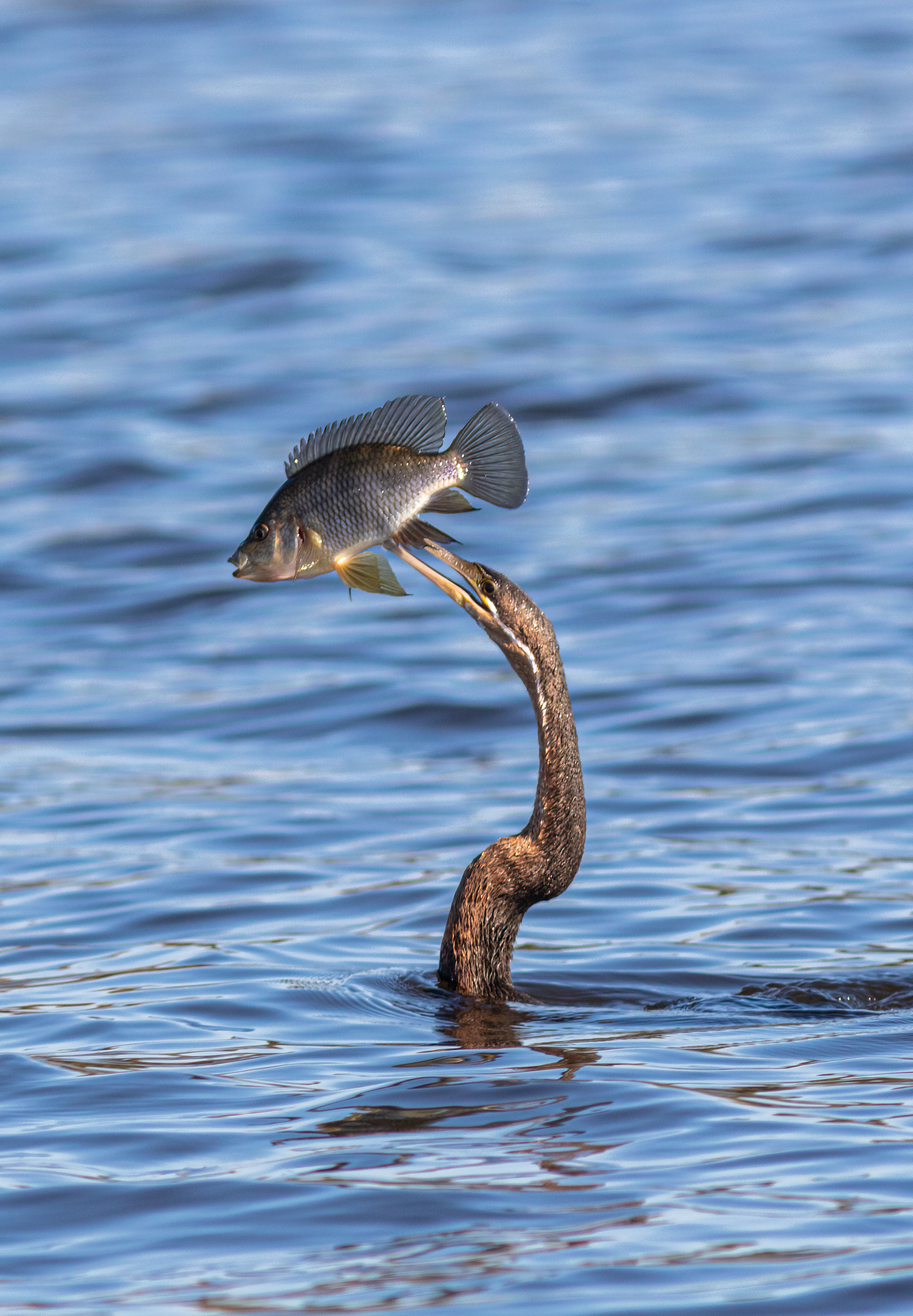 African darter (Anhinga rufa), Chobe National Park, Botswana